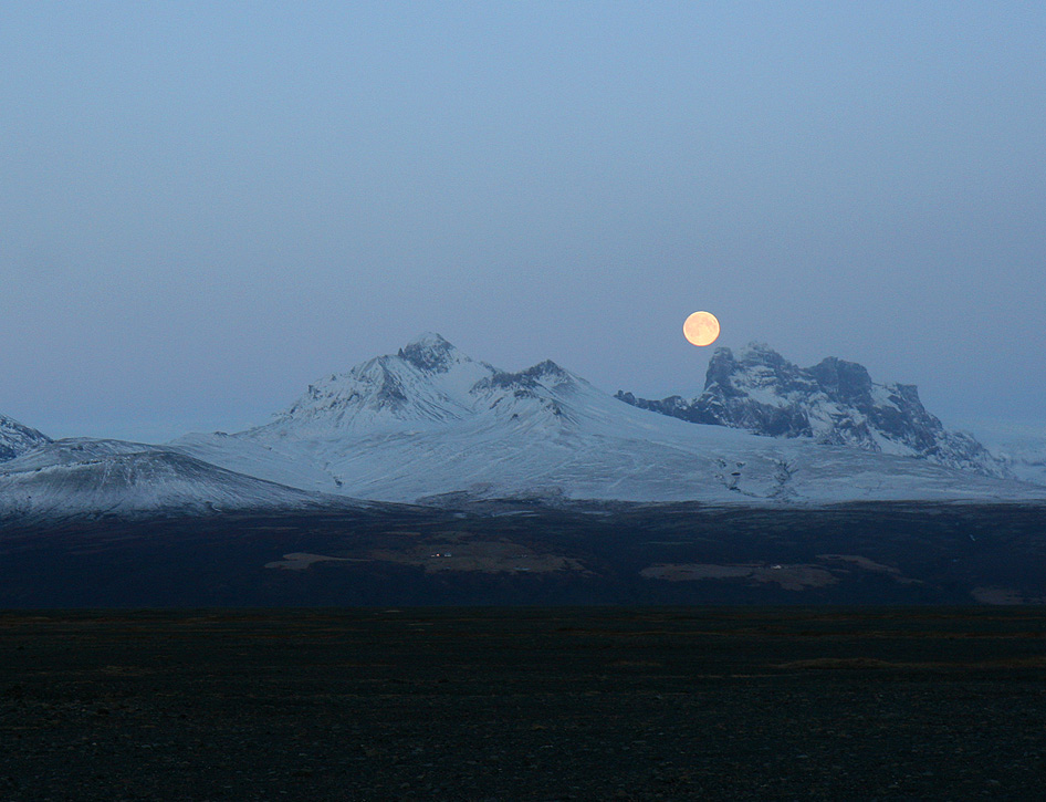 Moon rising over Skaftafell, November 24 16:40 Iceland, November 2007 Photo by me user:debivort (or my friend who has given me permission to freely license our photos from Iceland)